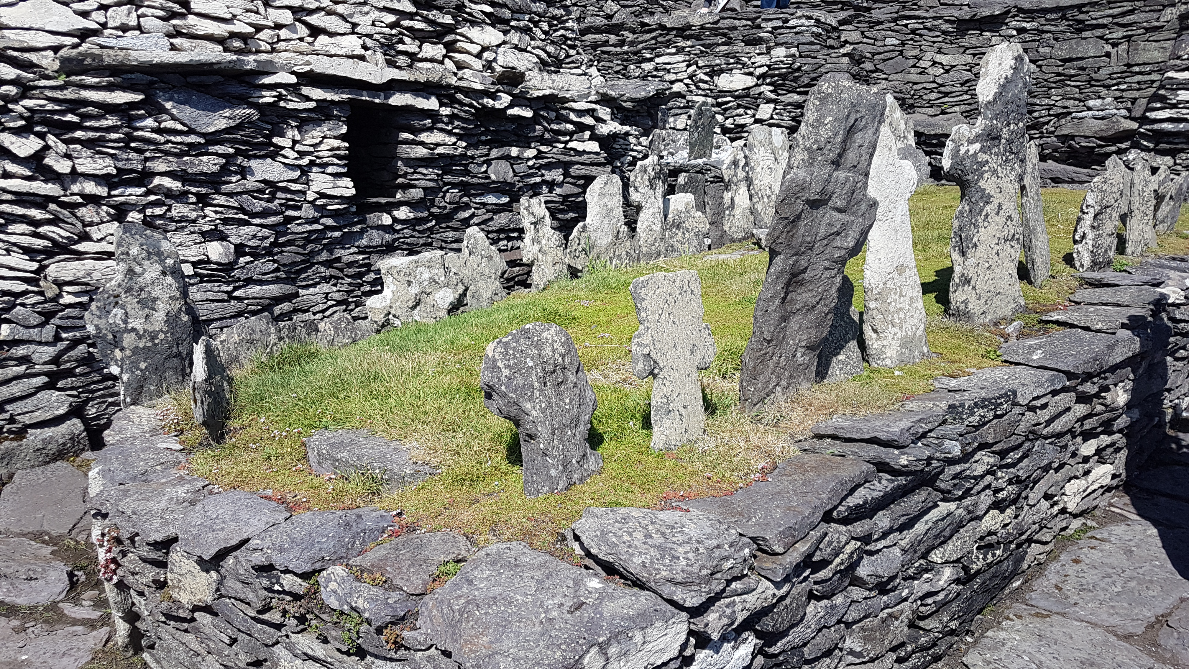 The monastery at Skellig Michael